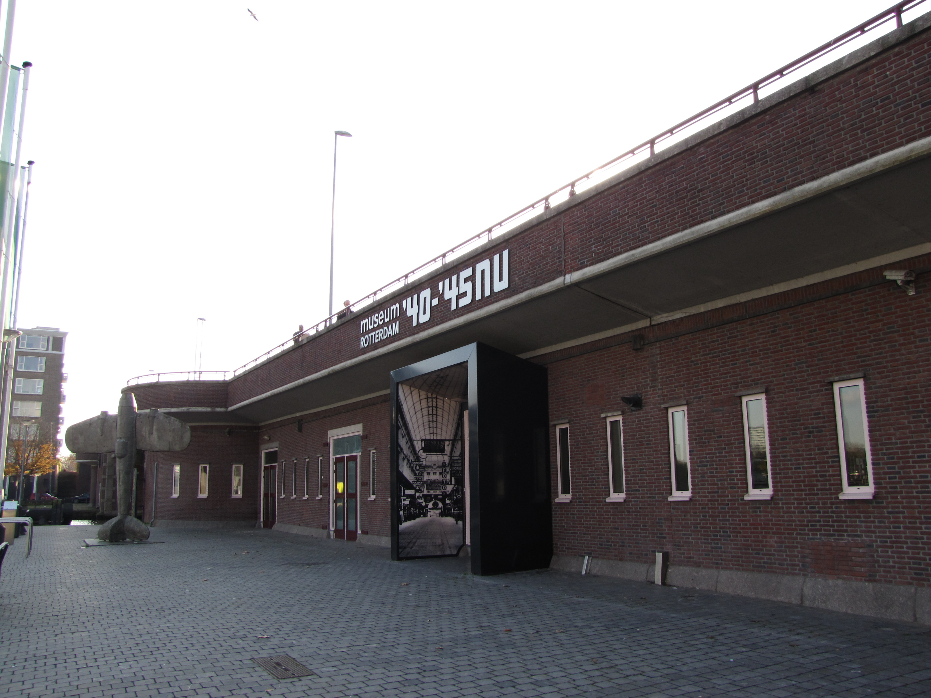 Museum Rotterdam '40-'45-NU and Pieter de Hoochbrug